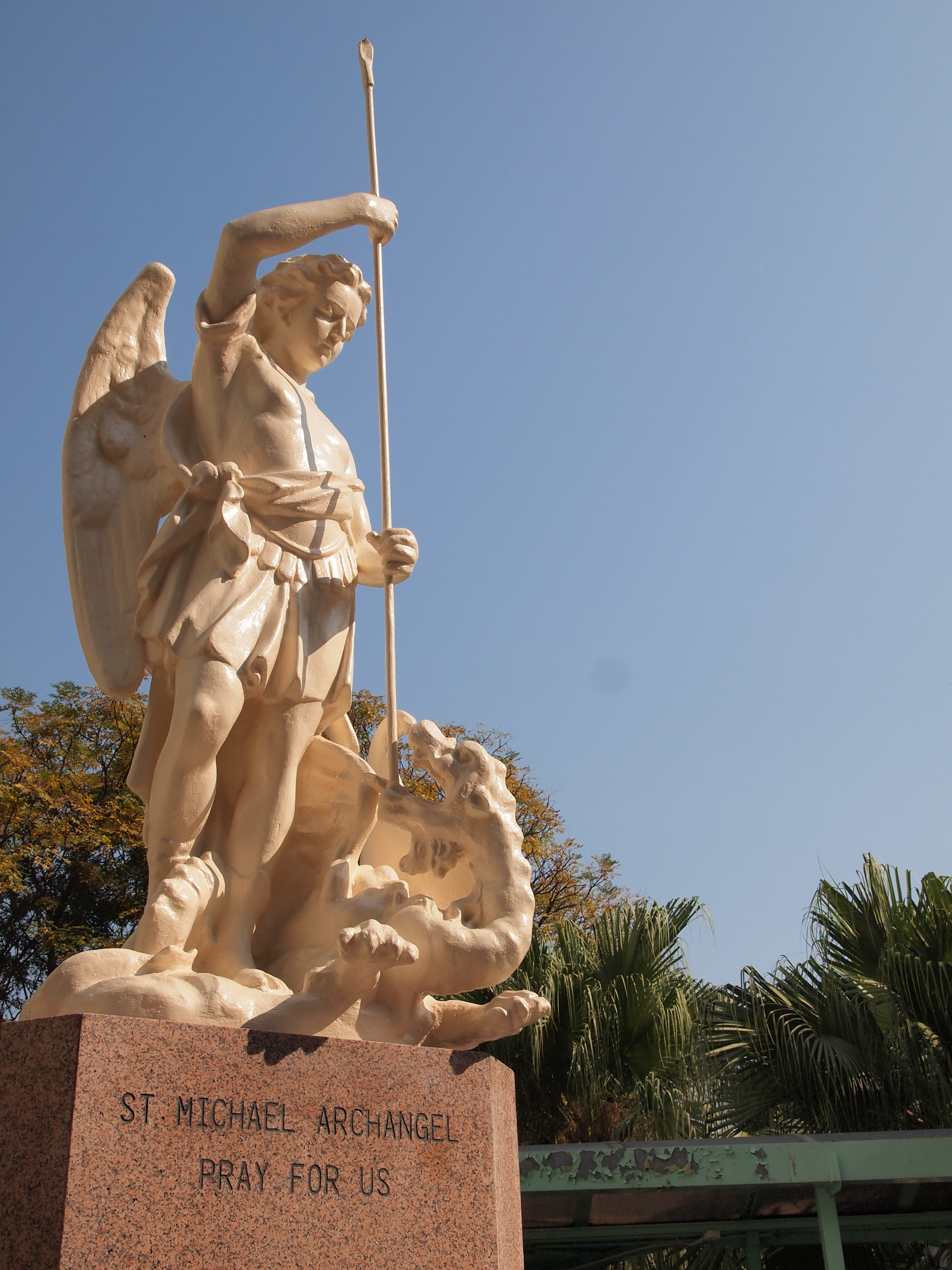 St. Mary's St. Michael Statue